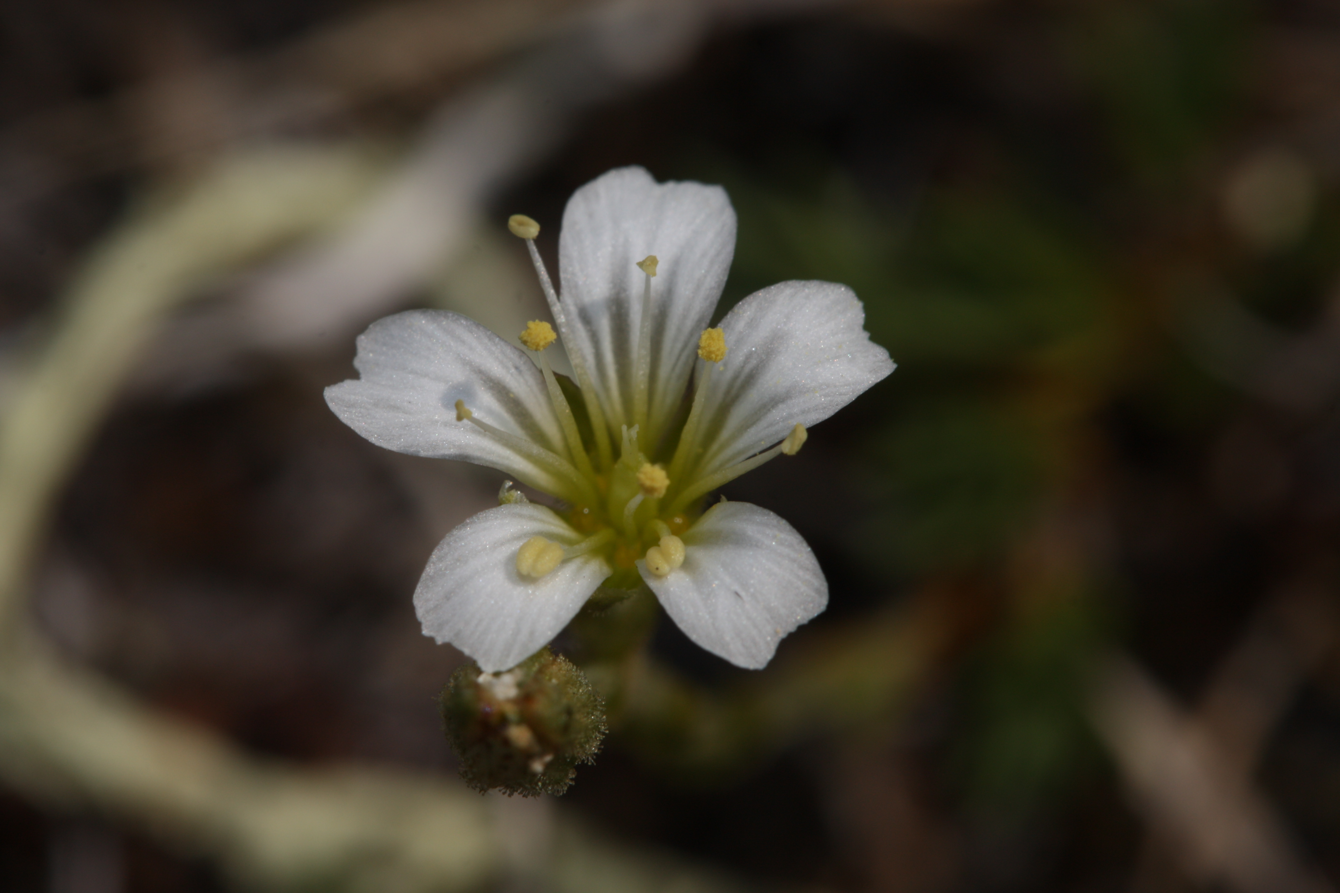 Fescue Sandwort